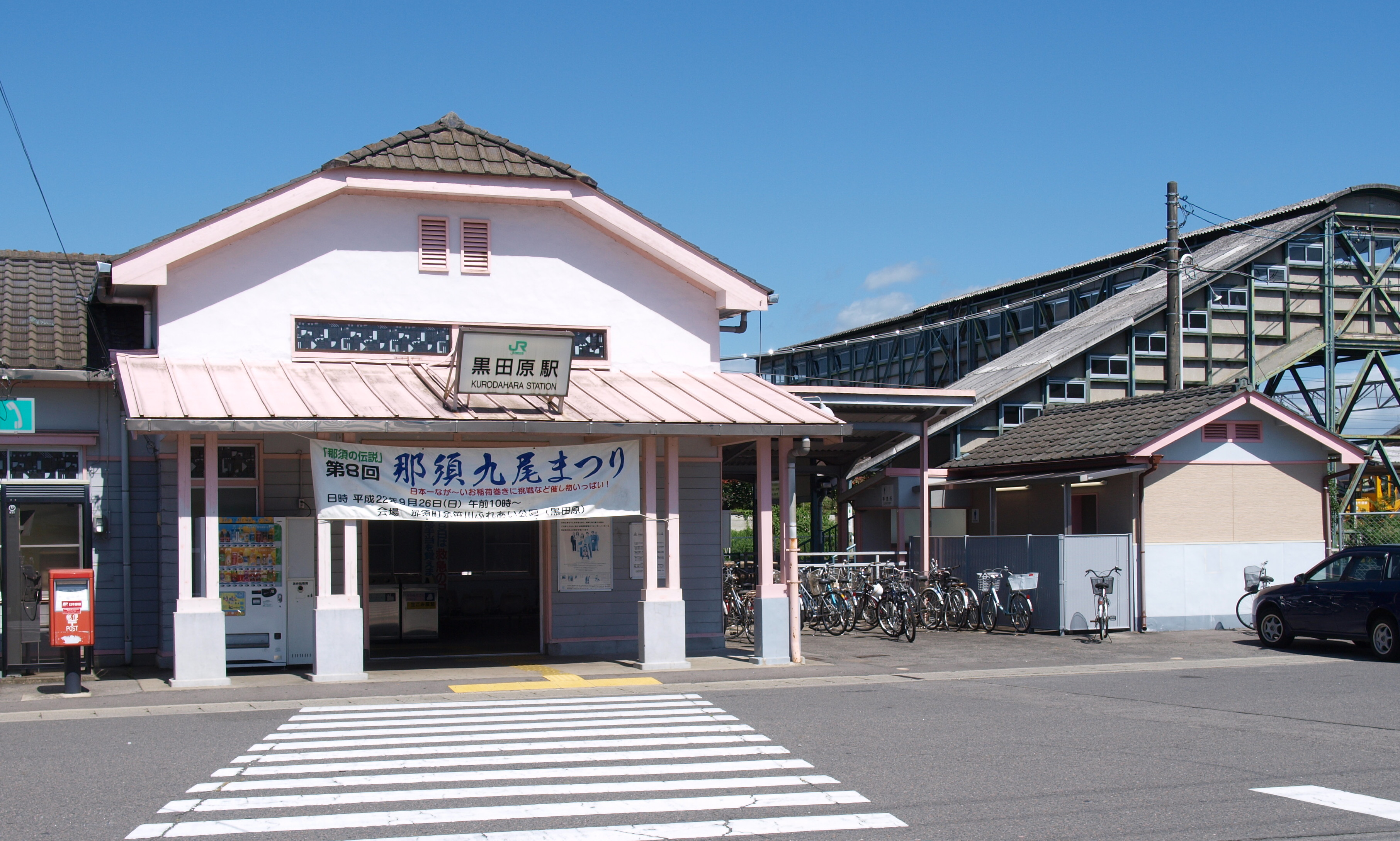 Kurodahara Station